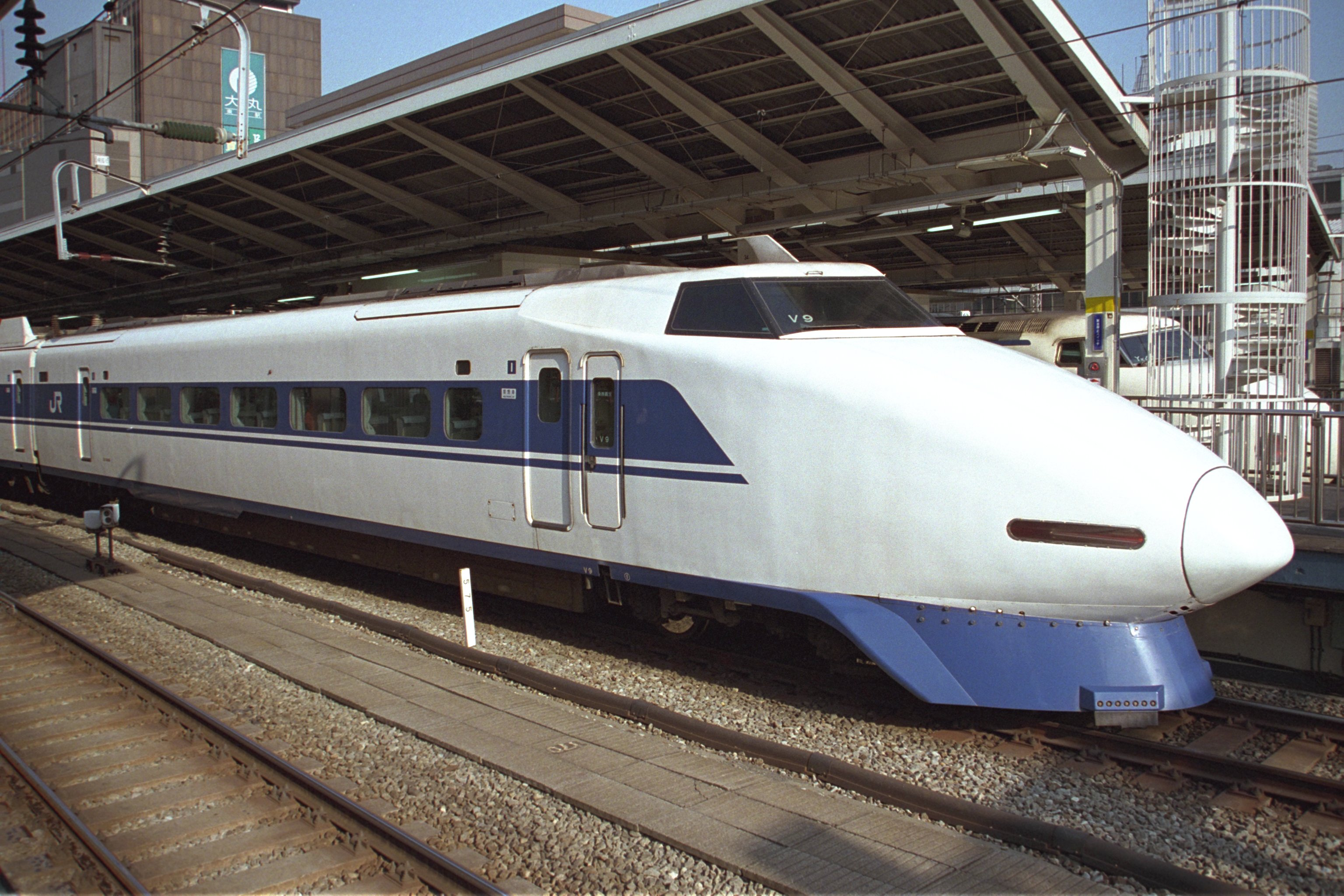 JR West 100N series shinkansen set V9 on a Grand Hikari service at Tokyo Station